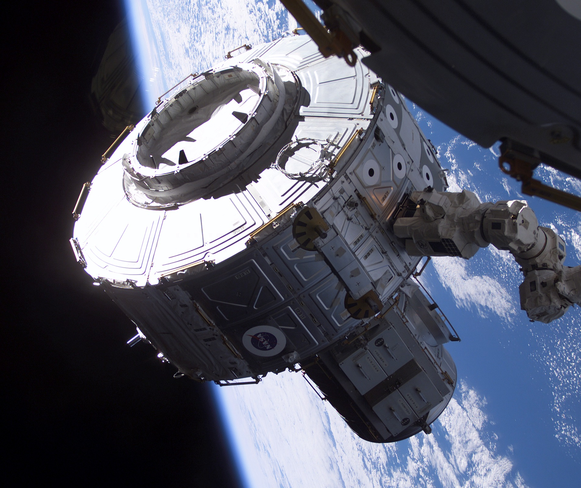 The Quest Joint Airlock module seen attached to the end effector of the Canadarm2 during the module's installation on to the Unity node during STS-104.